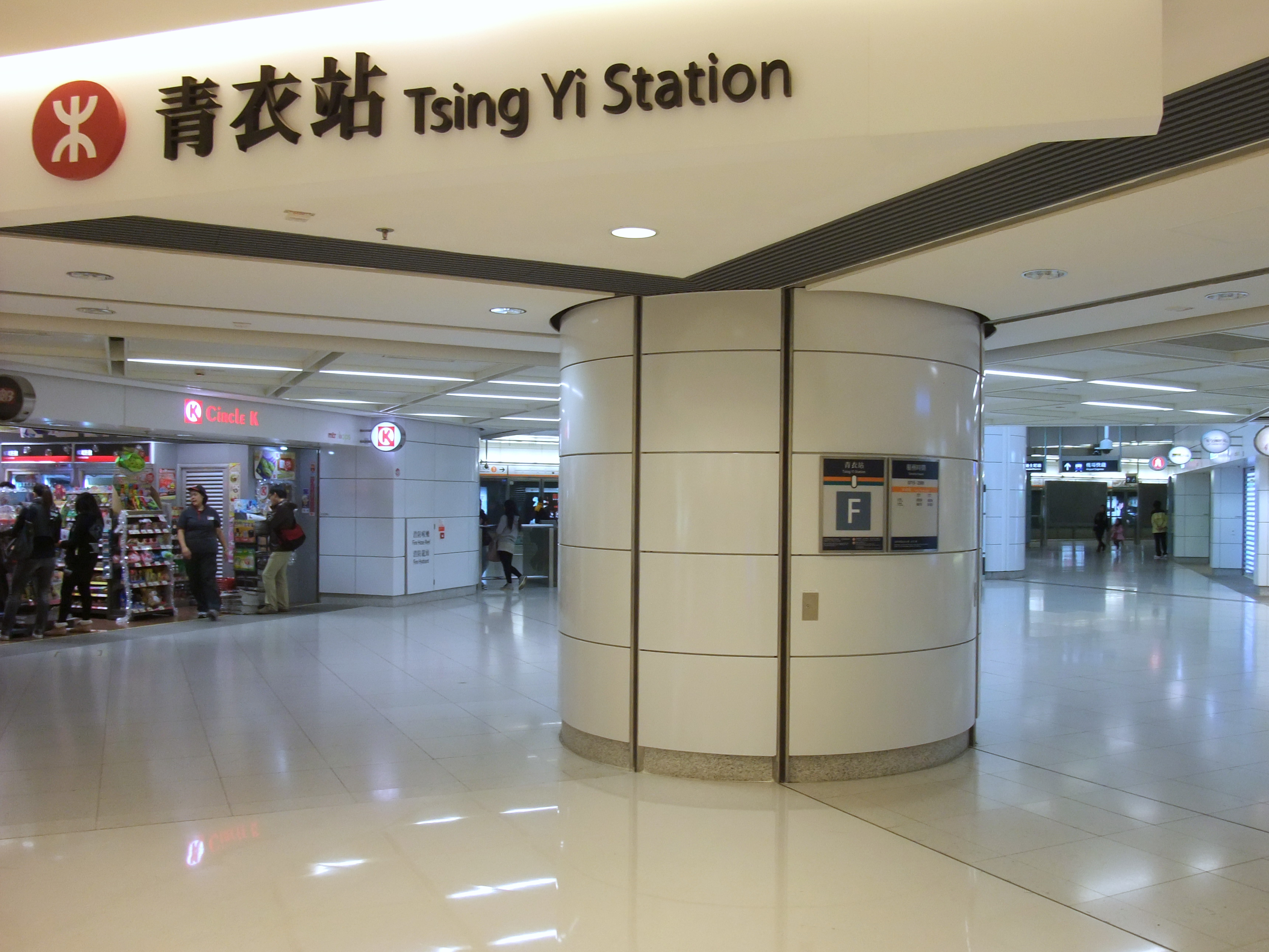 Hong Kong Mass Transit Railway (MTR) Tsing Yi Station, Exit F to Maritime Square.